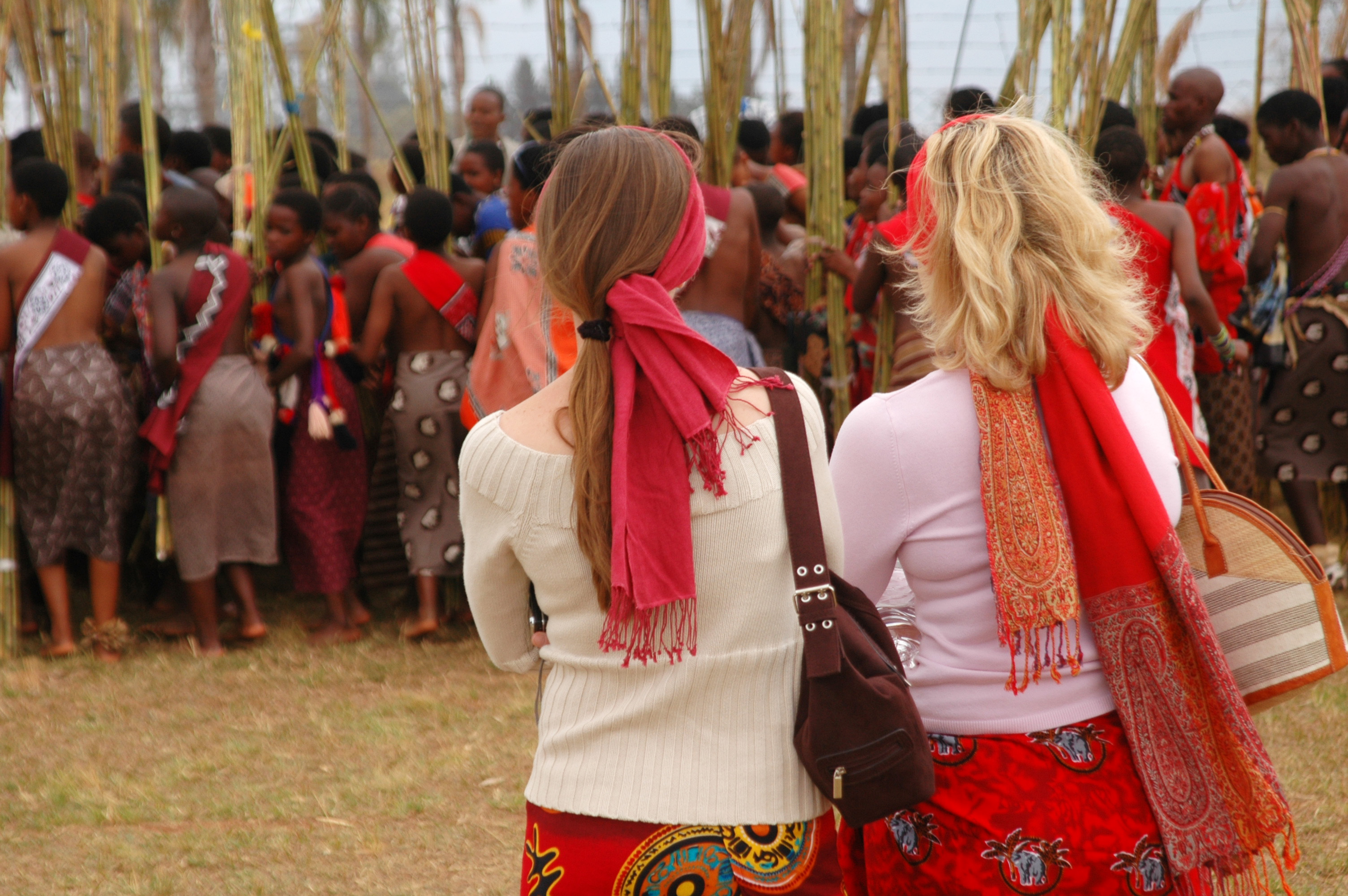 The Reed Dance Festival 2006